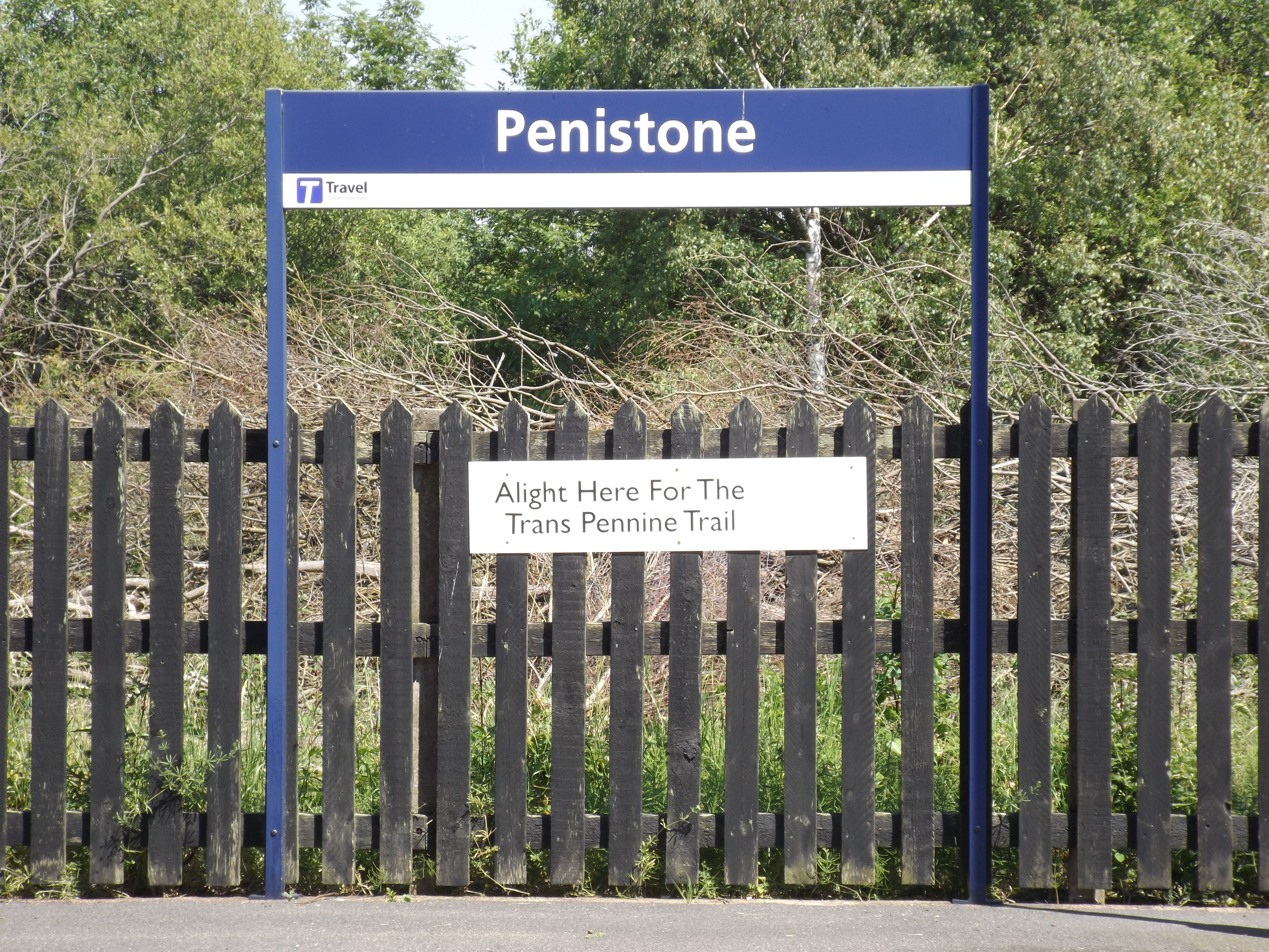 A platform sign at Penistone railway station, England.